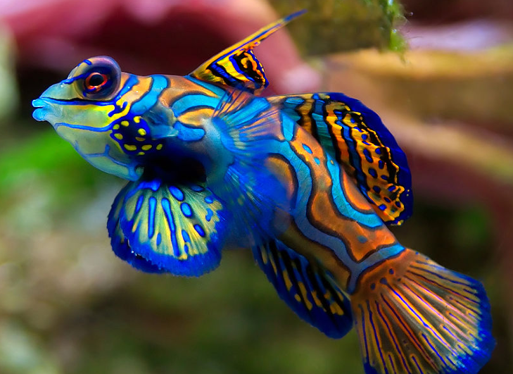 Mandarinfish in aquarium-Muséum Liège (Belgium)